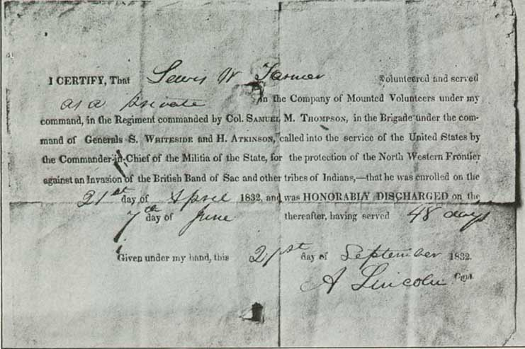 Honorable Discharge signed by Abraham Lincoln in 1832. From the collection of Mr. Oldroyd, of Washington.